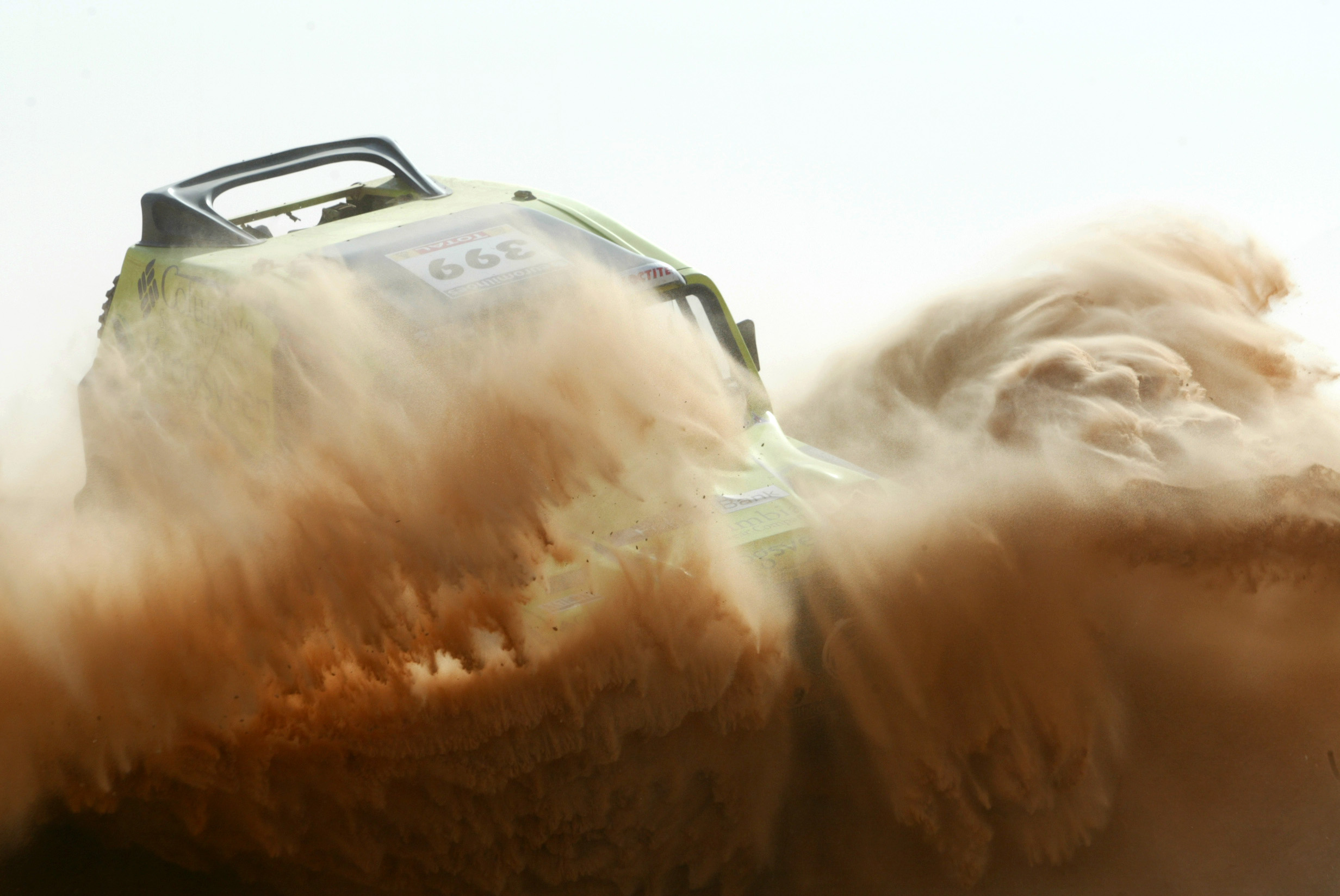 Rally Dakar Argentina-Chile-Argentina. In the image, car Nº 399, drove by Francisco Pita (partner Humberto Gonçalvez). Both from Portugal.